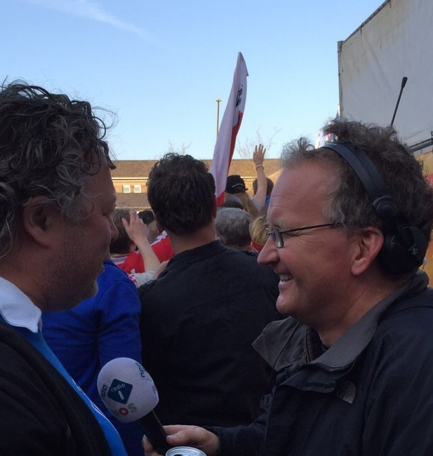 Joris van de Kerkhof.